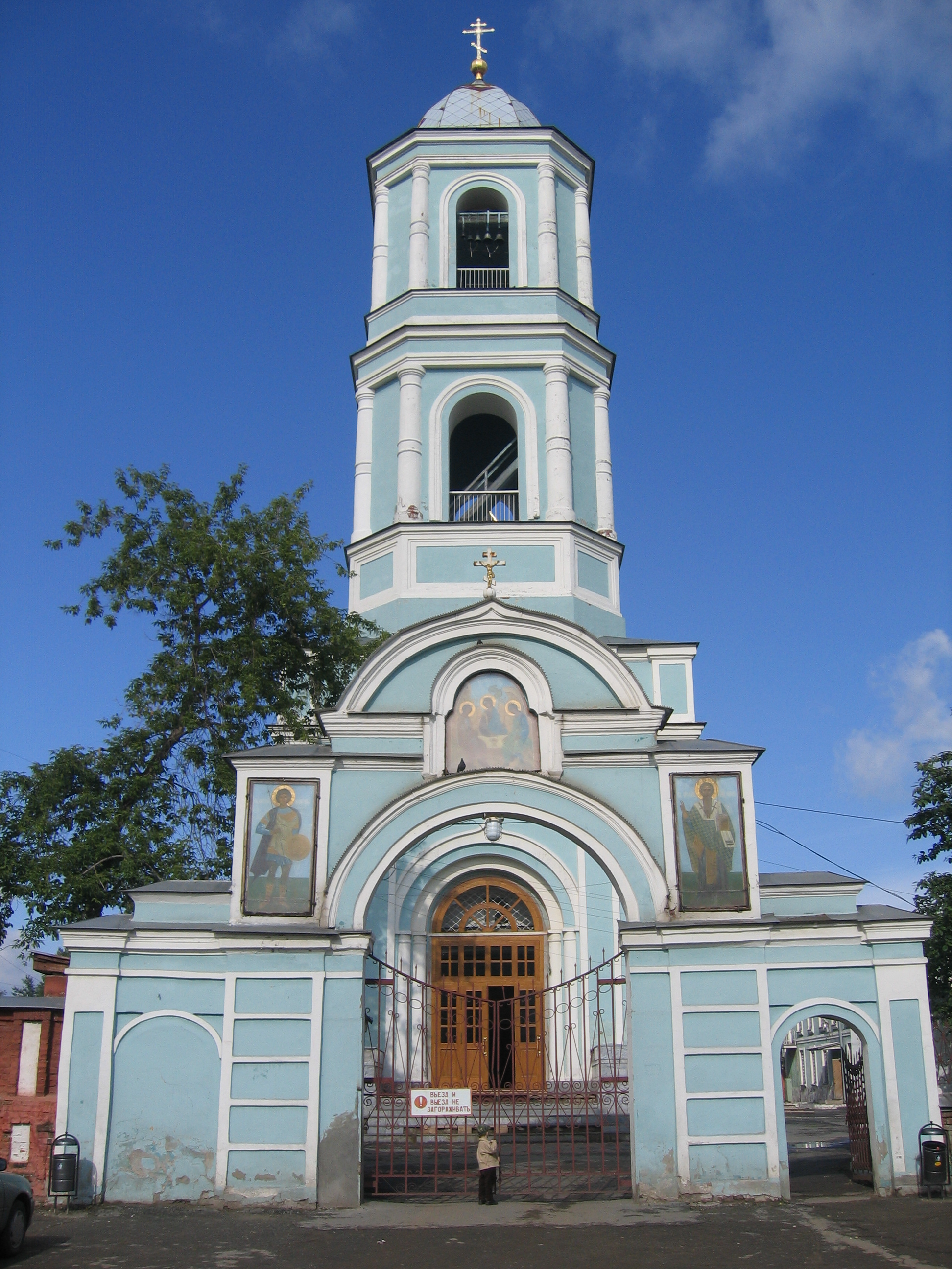 Church of a Sacred Trinity in Perm